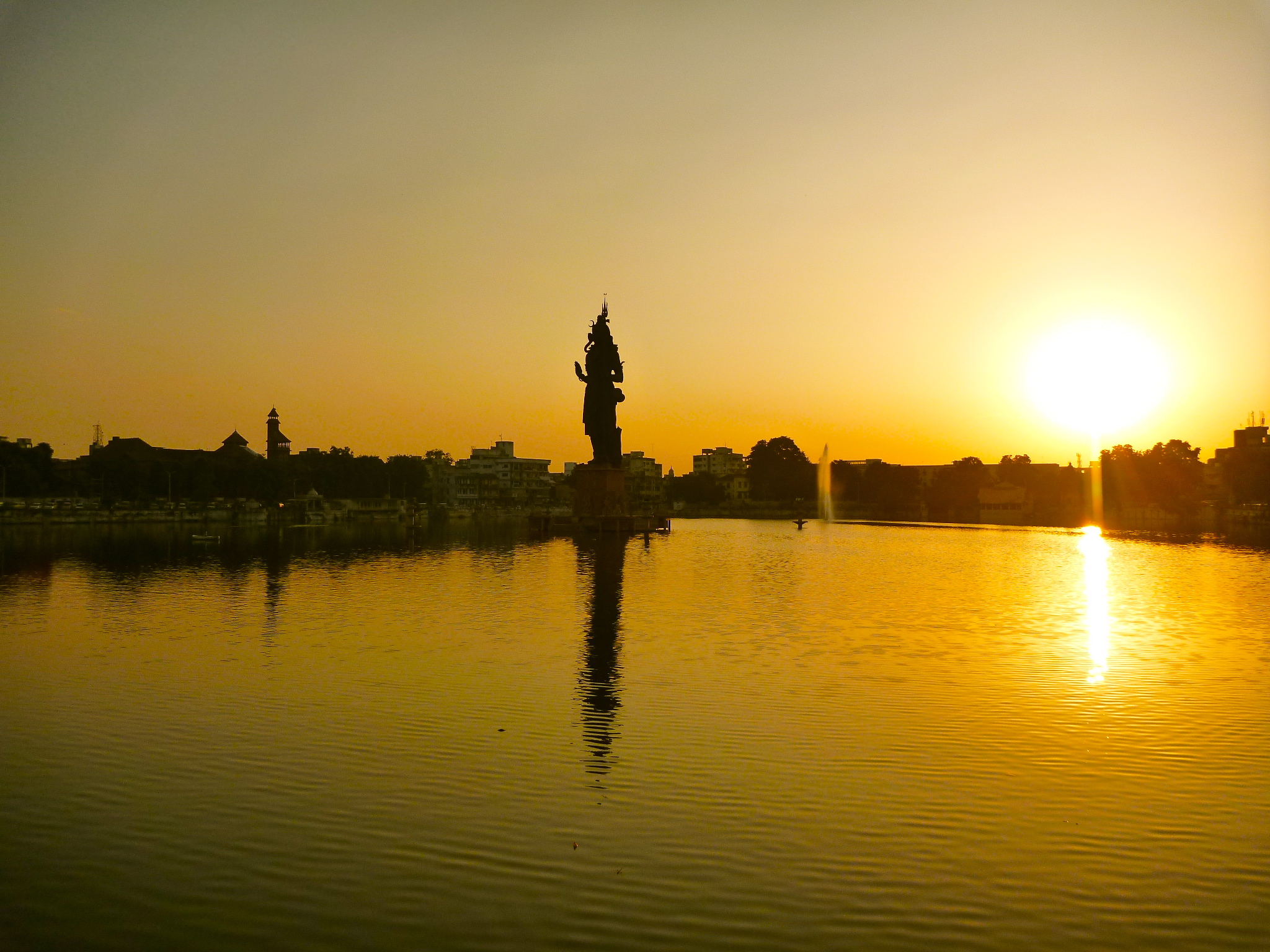 Sursagar Lake in Vadodara / Gujarat / India with statue of Lord Shiva during sunset